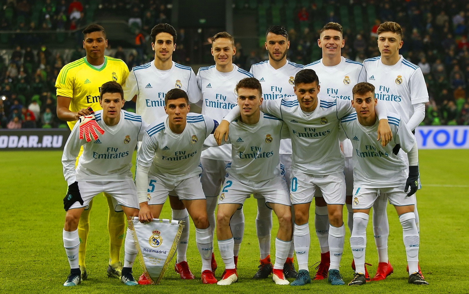 César Gelabert (11), Óscar Rodríguez Arnaiz (10)